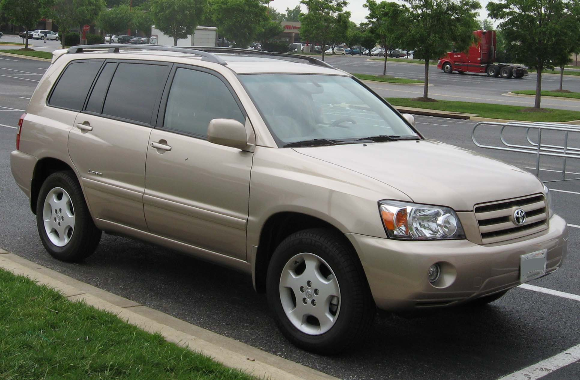 2004-2006 Toyota Highlander photographed in USA.